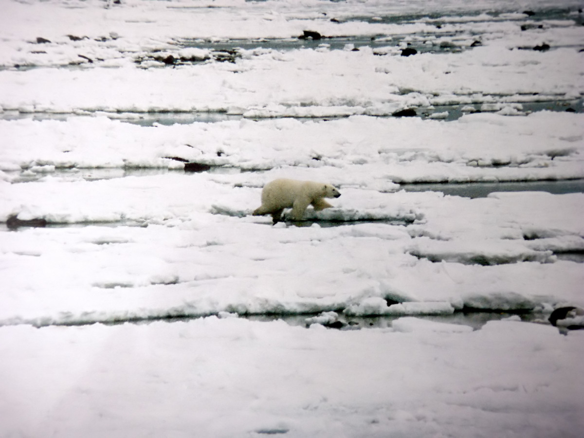 Polar bear, Ursus maritimus is walking over newly formed sea ice at Hudson Bay,Churchill. The image is a digital picture of an old print of mine.